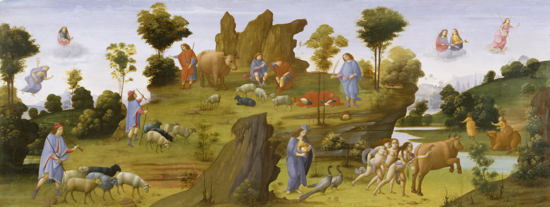 The ancient Roman poet Ovid, in his "The Metamorphoses," told the story of the nymph Io who was seduced by Jupiter, the king of the gods. When his wife Juno became jealous, Jupiter transformed Io into a heifer to protect her. This panel relates the second half of the story. In the upper left, Jupiter emerges from clouds to order Mercury to rescue Io. In the lower left, Mercury guides his herd to the spot where Io is guarded by the hundred-eyed Argus. In the upper center, Mercury, disguised as a shepherd, lulls Argus to sleep and beheads him. Juno then takes Argus's eyes to ornament the tail feathers of her peacock and sends the Furies to pursue Io, who flees to the Nile River. At last, Jupiter prevails on his wife to cease tormenting the nymph, who, upon resuming her natural form, escapes to the forest and ultimately becomes the Egyptian goddess Isis. The panel was originally paired with another that depicted the first part of the story. The two were probably once installed in a house in Florence. For more information on this panel, please see Zeri catalogue number 64, pp. 100-101.